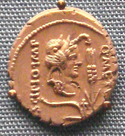 Silver_denarius_of_Metellus_Scipio_47_46_BCE Silver denarius of Quintus Caecilius Metellus Pius Scipio Nasica, depicting Africa personified, wearing elephant-skin headgear. The stalk of grain (right) and plough (below) represent the African province's importance as a grain-producing region. Inscription reads Q[uintus] METELL[us] / SCIPIO IMP[erator]. The reverse of this coin (not shown) is a standing nude Hercules and EPPIVS – LEG·F·C (Eppius, legate).